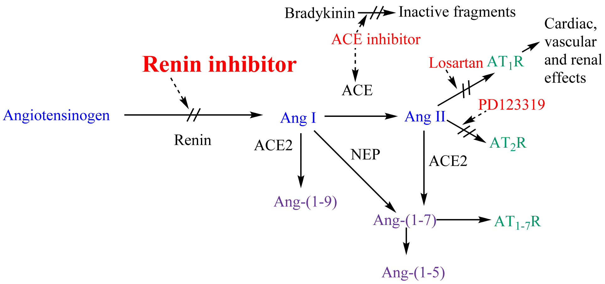 Renin-anigotensin system and potential steps of blockage. Created using CS ChemDraw Ultra.